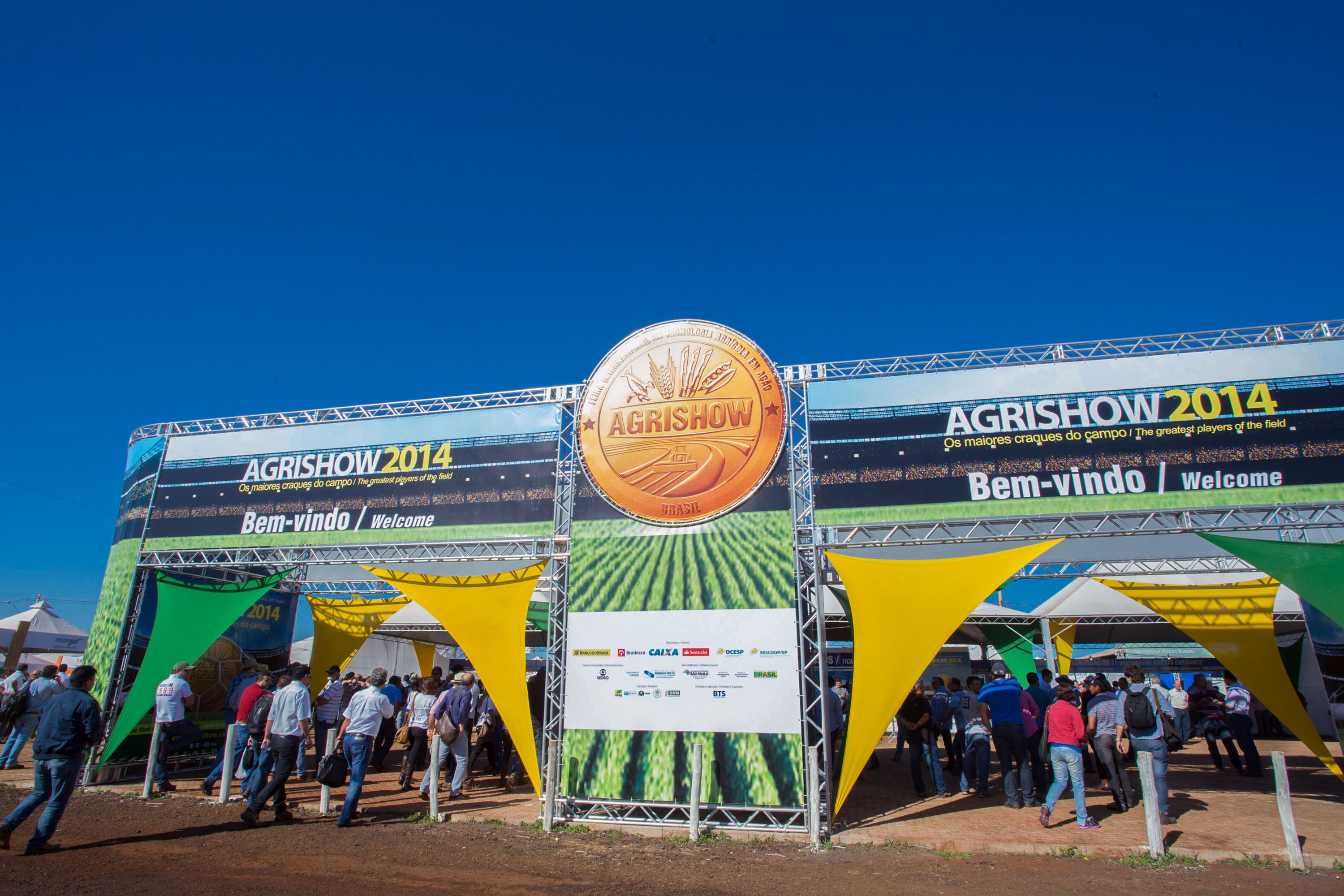 O governador Geraldo Alckmin Participa da Cerimônia de Abertura da Agrishow na Cidade de Ribeirão Preto, interior de São Paulo.Data: 28/04/2014. Local: Ribeirão Preto/SP.Foto: Diogo Moreira/A2 FOTOGRAFIA